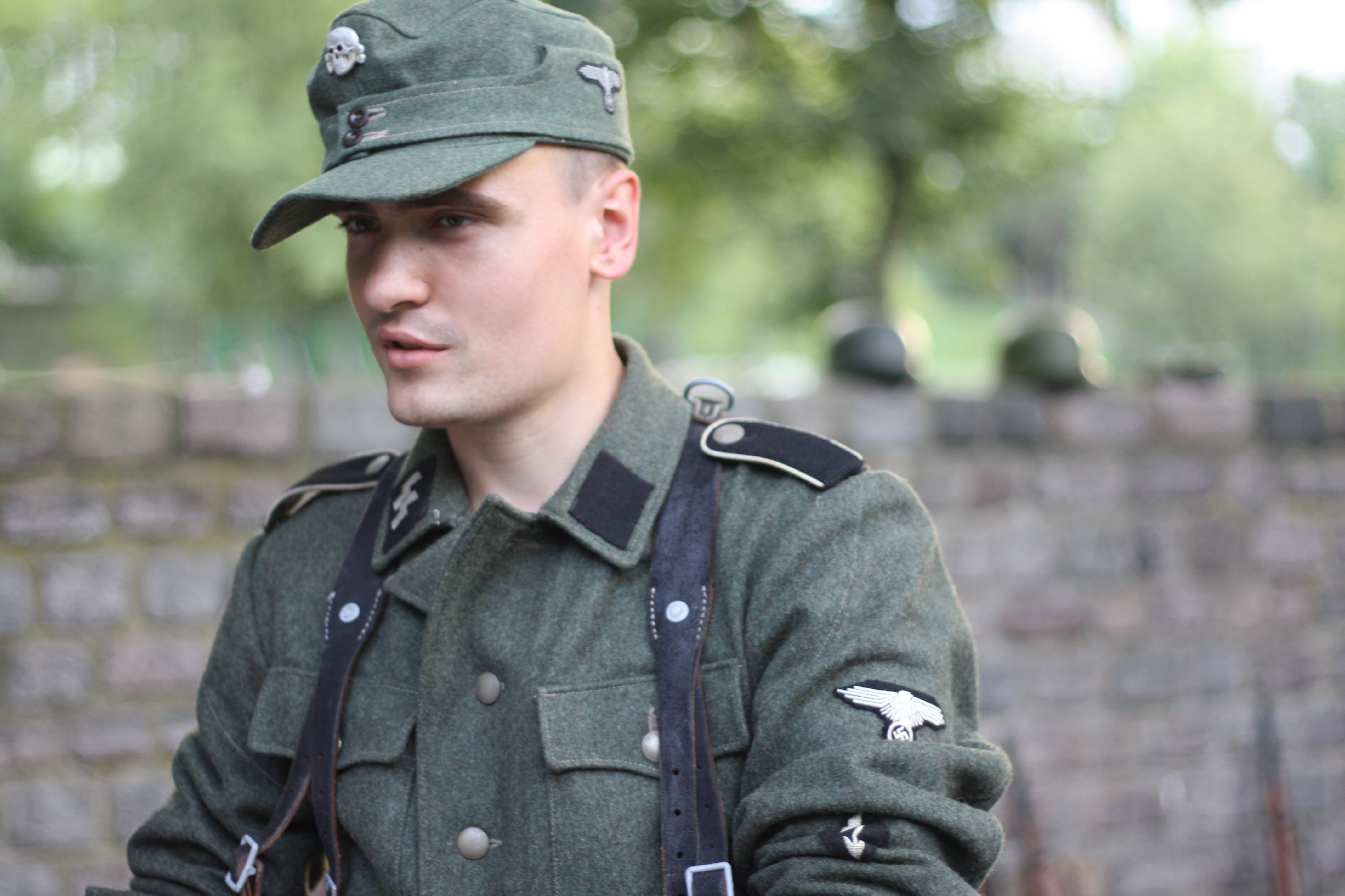 Warsaw Uprising reenactments - Warsaw Old Town, Zmartwychwstanki Fortress (Żoliborz)